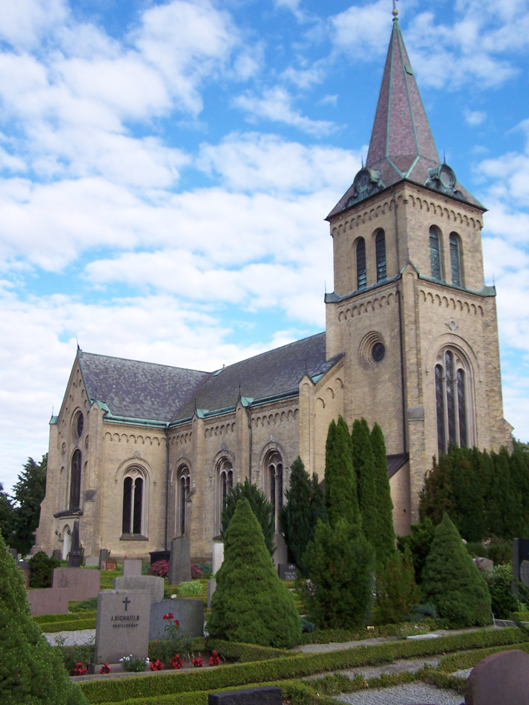 Lomma church.